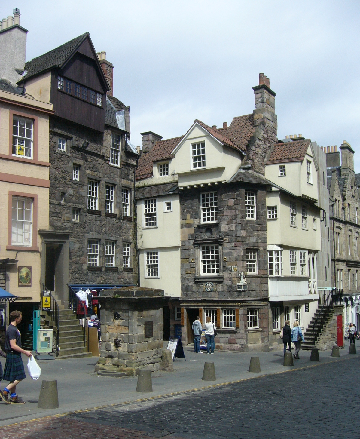 Two of the oldest, restored dwellings of Edinburgh's Old Town, built close to the site of the Netherbow Port at the foot of the High Street. Both partially survived the devastating raid by the earl of Hertford in 1544 when Henry VIII ordered him to punish the Scots for reneging on an agreement made by Cardinal Beaton to betroth their infant Queen Mary to Henry's son, Prince Edward. "Put all to fire and sword, burn Edinburgh town, so raised and defaced when you have sacked and gotten what you can of it, that there may remain forever a perpetual memory of the vengeance of God upon [them] for their falsehood and disloyalty. Do what you can out of hand, and without long tarrying, to beat down and overthrow the castle, sack Holyrood house, and as many towns and villages about Edinburgh, as you may conveniently. Sack Leith and burn and subvert it and all the rest, putting man, woman and child to fire and sword without exception where any resistance shall be made against you, and this done, pass over to Fife and extend the same extremities and destructions to all towns and villages which you may reach conveniently, not forgetting among all the rest so to spoil and turn upside down the Cardinal's town of St. Andrews, that the upper stone may be the nether, and not one stick stand beside another, sparing no creature alive within the same, especially if in either friendship or blood they are allied to the Cardinal." Landing at Wardie Bay on 6th May and crossing the Water of Leith at Bonnington, Hertford's force battered its way into the town through the Netherbow Port. "Beginning that evening he continued for three days afterwards to burn the city so that not a house was 'left unburnt', not even the Abbey and Palace of Holyroodhouse." -- Royal Commission Report, The City of Edinburgh, 1951 Most of what is now seen in the Old Town dates from after this calamity.